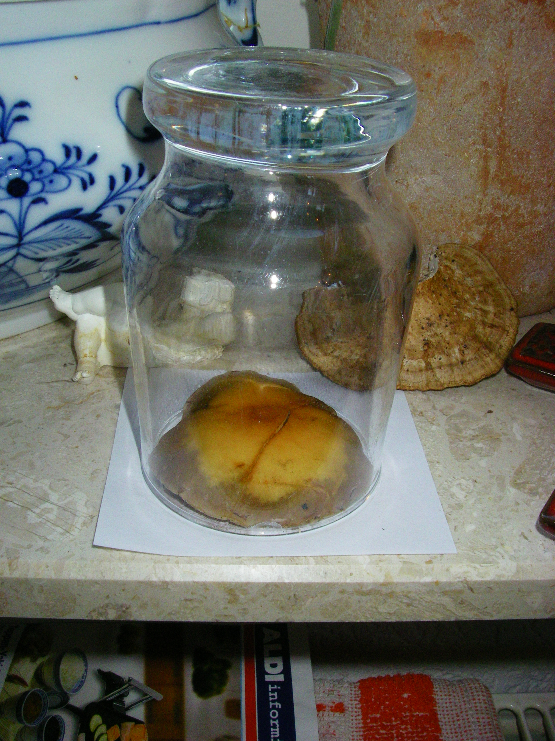 The making of this document was supported by the Community-Budget of Wikimedia Germany.